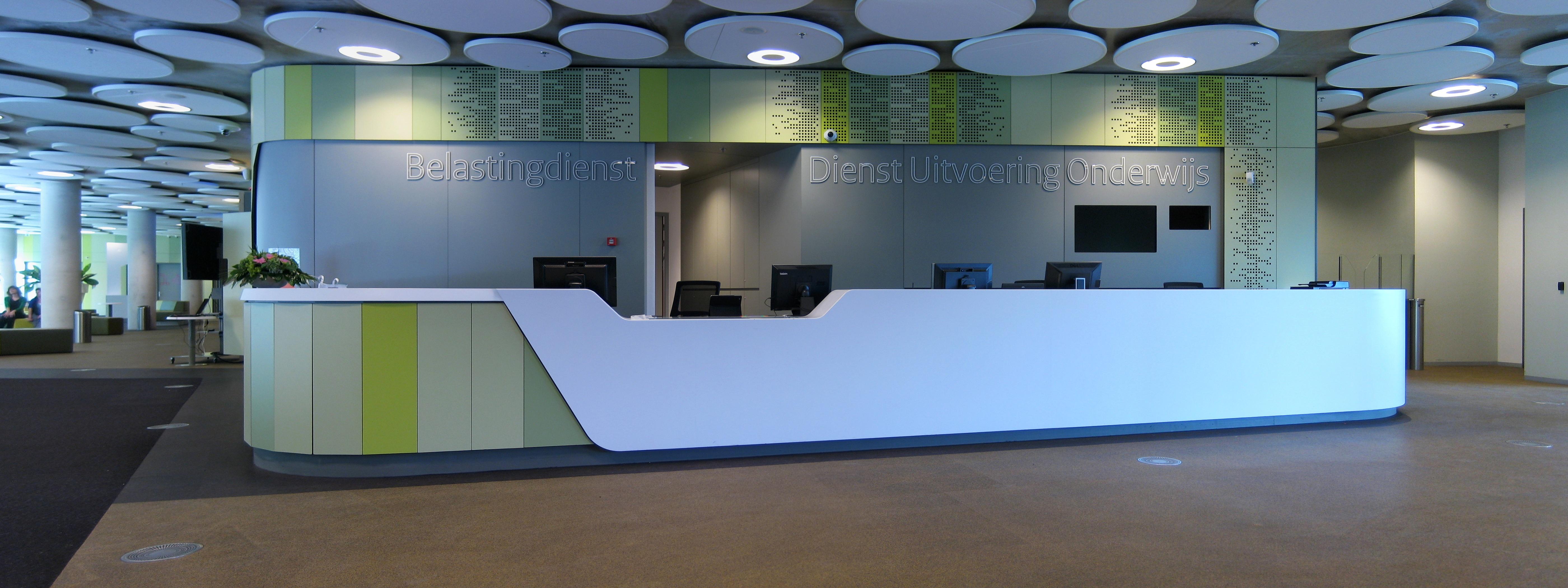 The reception of the Kempkensberg office building in the Dutch city of Groningen.